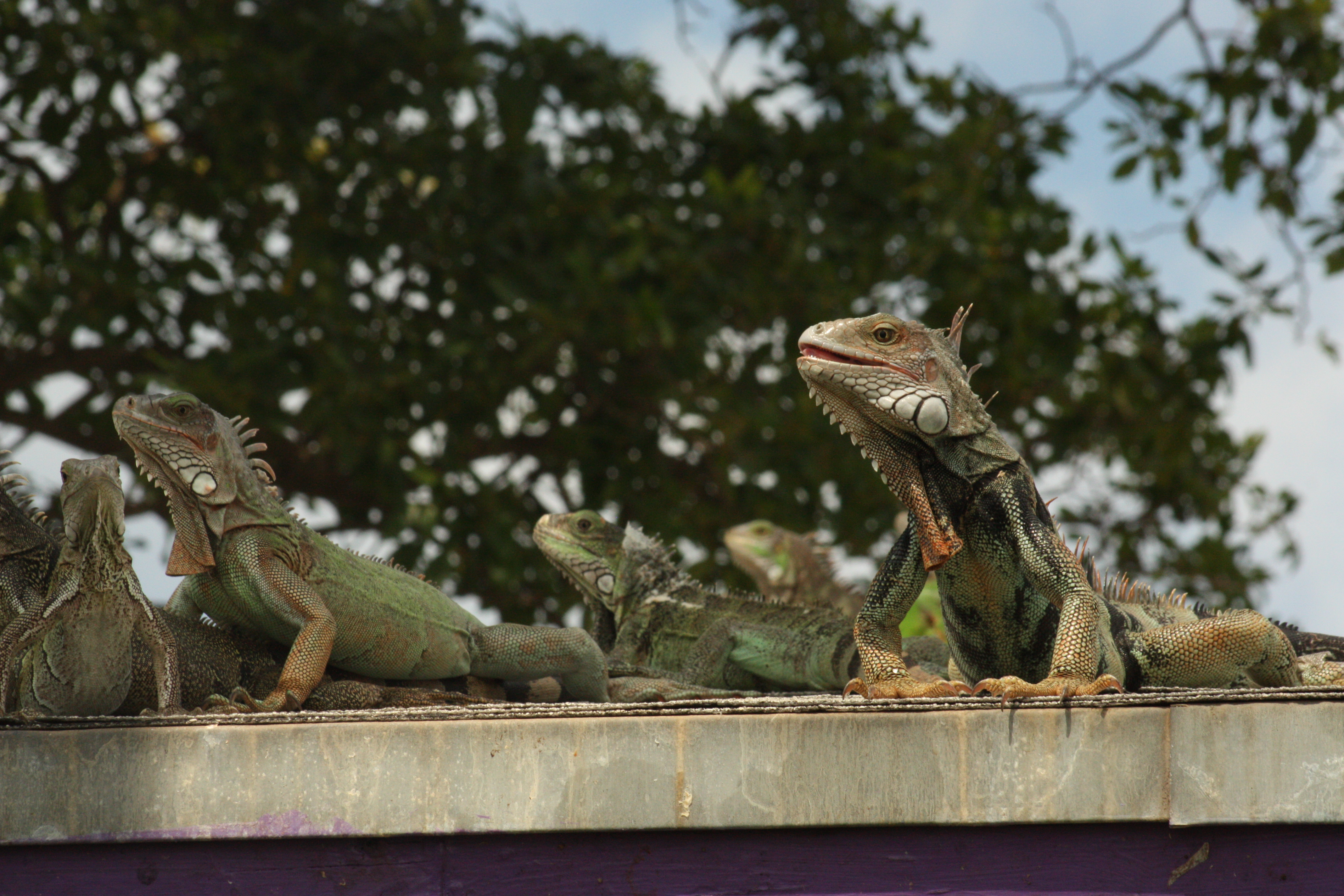 Iguanas on a rooftop in Aruba.